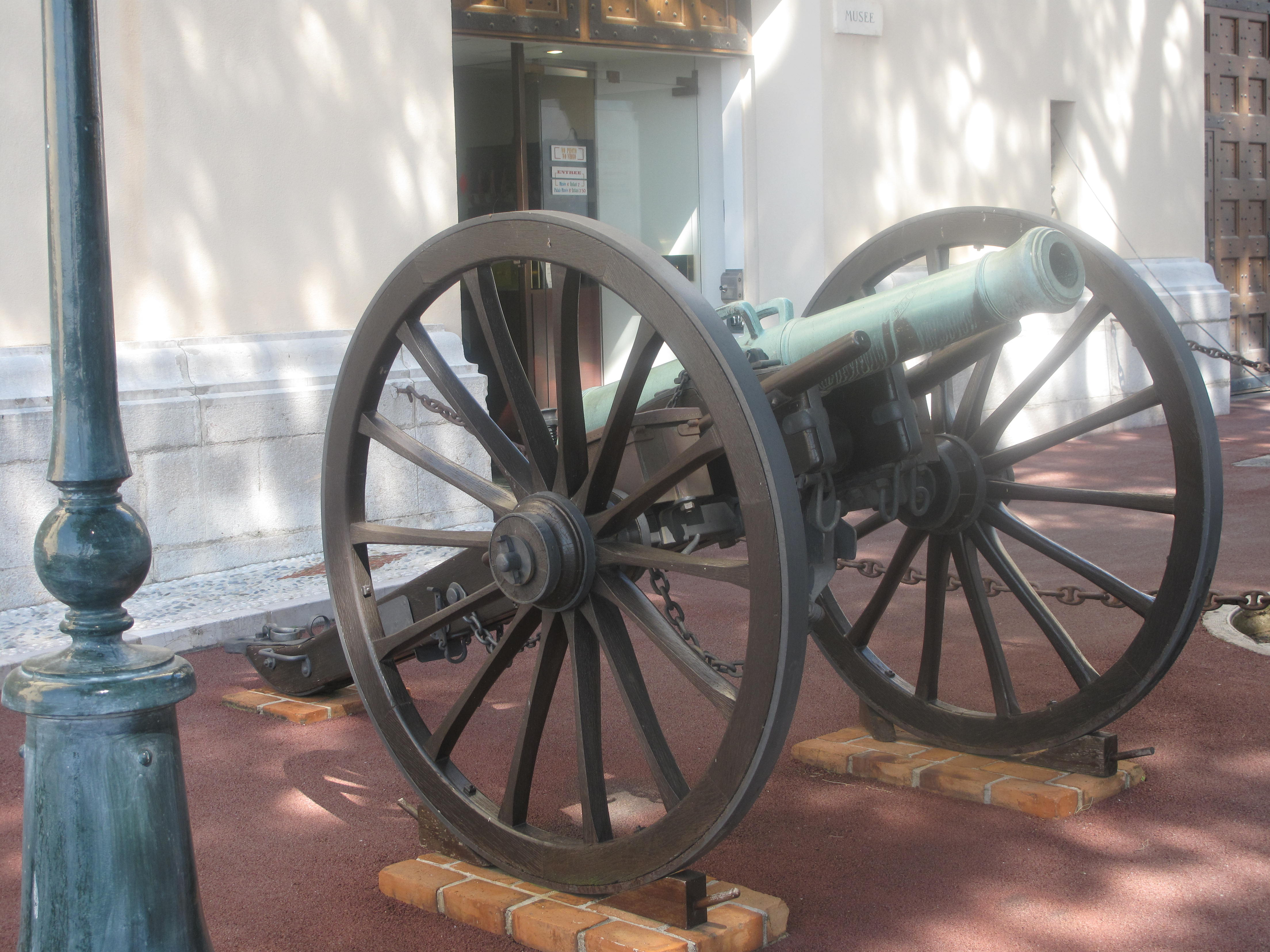 Cannon at the entrance of the Napoléon museum in Monaco